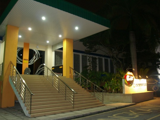 front view